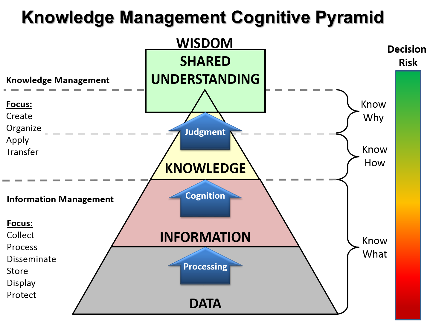 KM Cognitive Pyramid with Decision Risk Meter